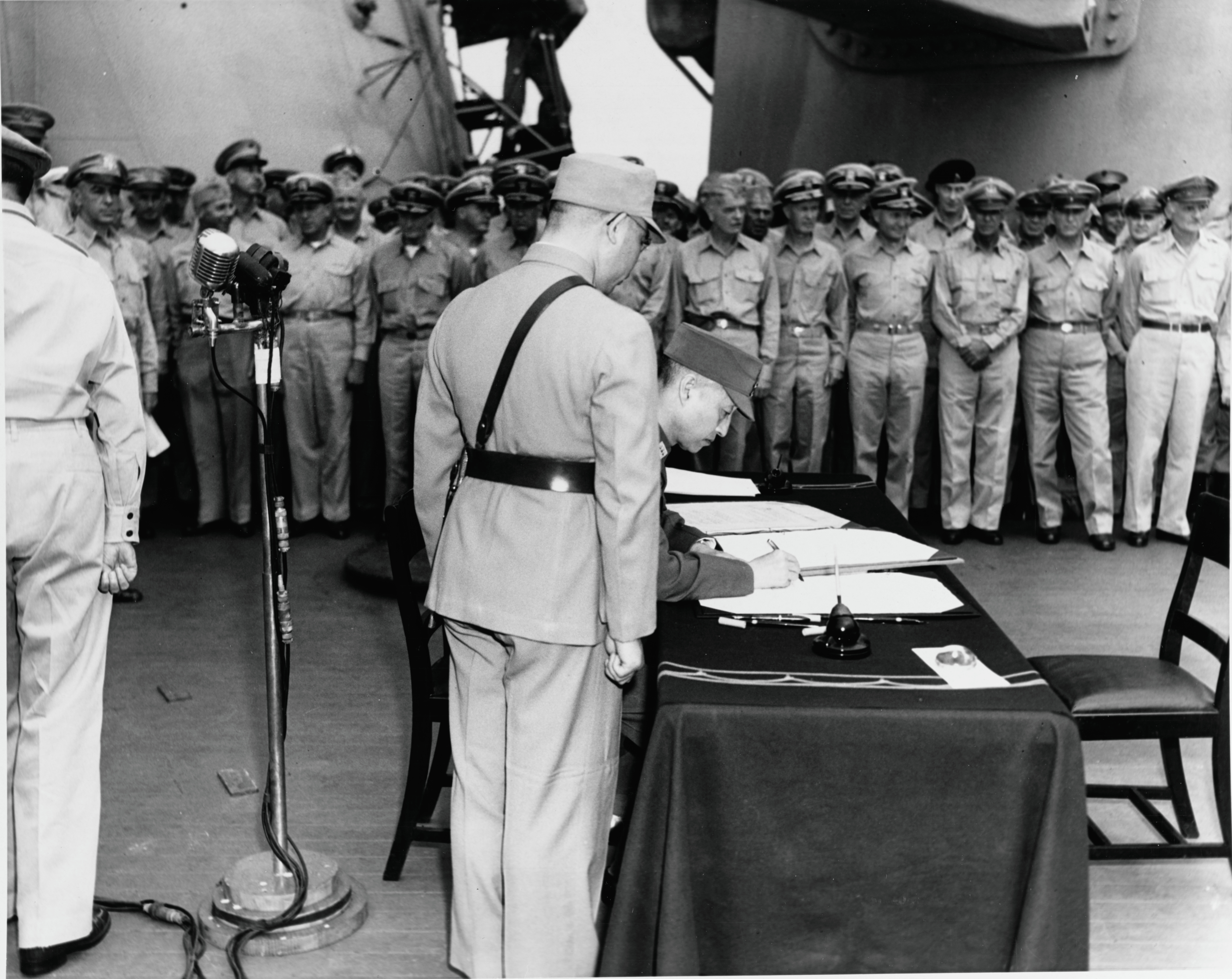 AWM caption:Tokyo Bay, Japan -- Surrender of Japanese aboard USS "Missouri". General Hsu Yung-Chang, representing Republic of China, signs the instrument of surrender. General Douglas MacArthur, Allied Supreme Commander, is watching; and an unidentified Chinese representative observes as he stands with his back to the camera.